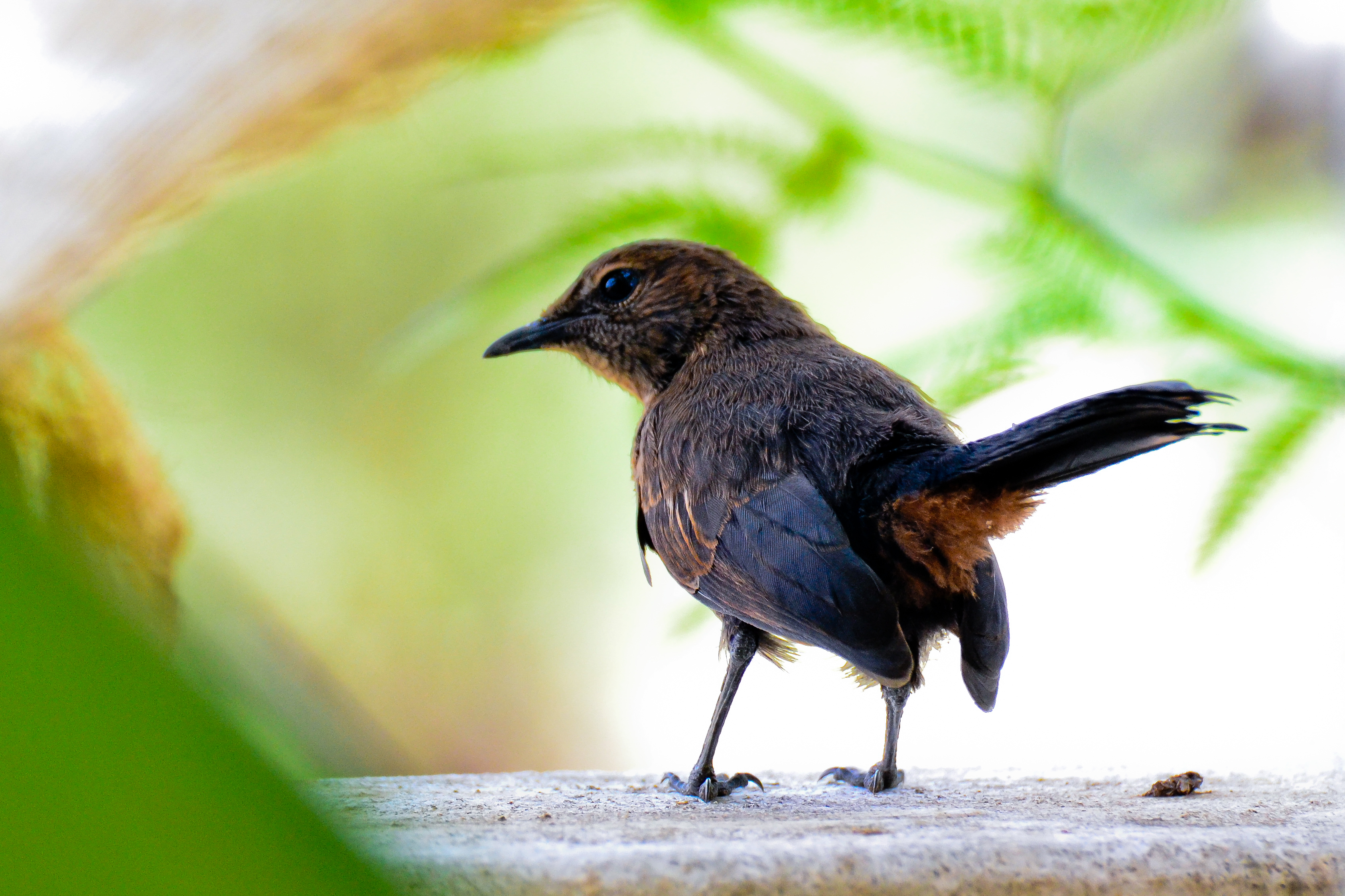 An Indian Robin (Saxicoloides fulicatus) in Tirunelveli, Tamil Nadu, India